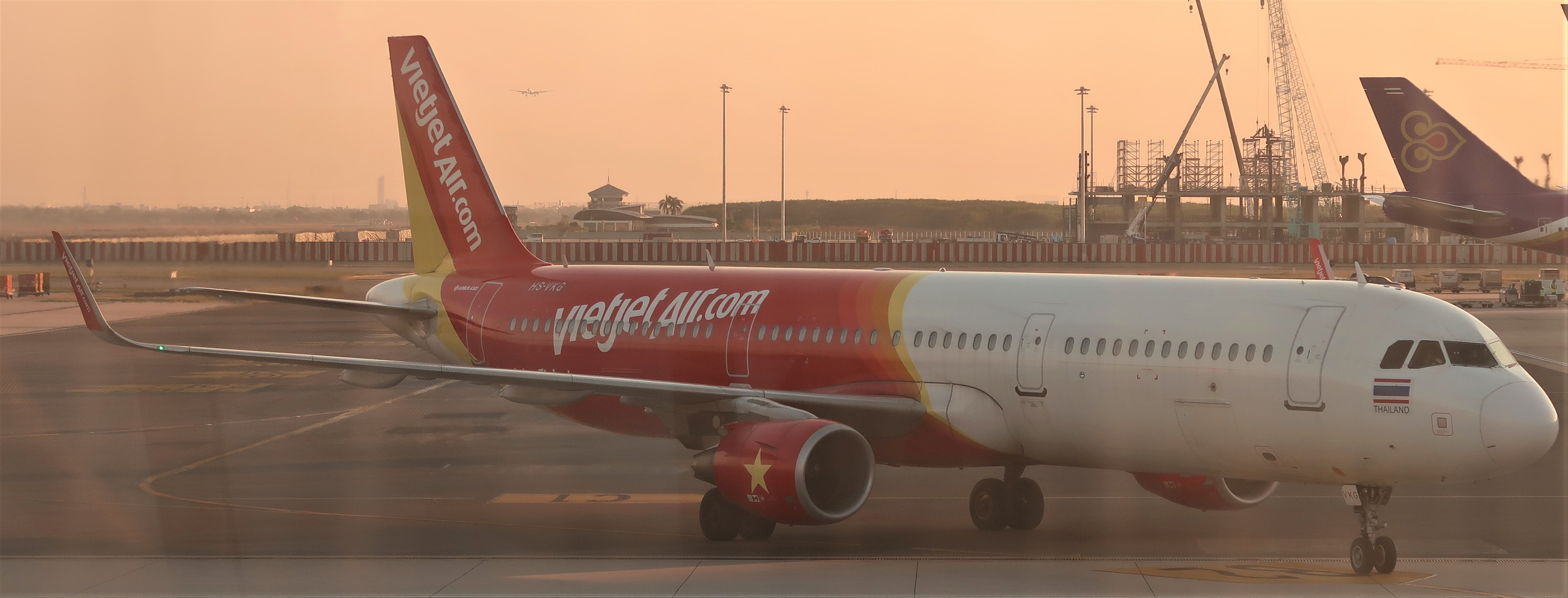 Airbus A321 (HS-VKG) of Thai Vietjet Air parked at Suvarnabhumi Airport.MSN: 6696First Flight: 15 July 2015Config: Y230Engines: 2 x CFMI CFM56-5B3/3Leased from: Dubai Aerospace Enterprise